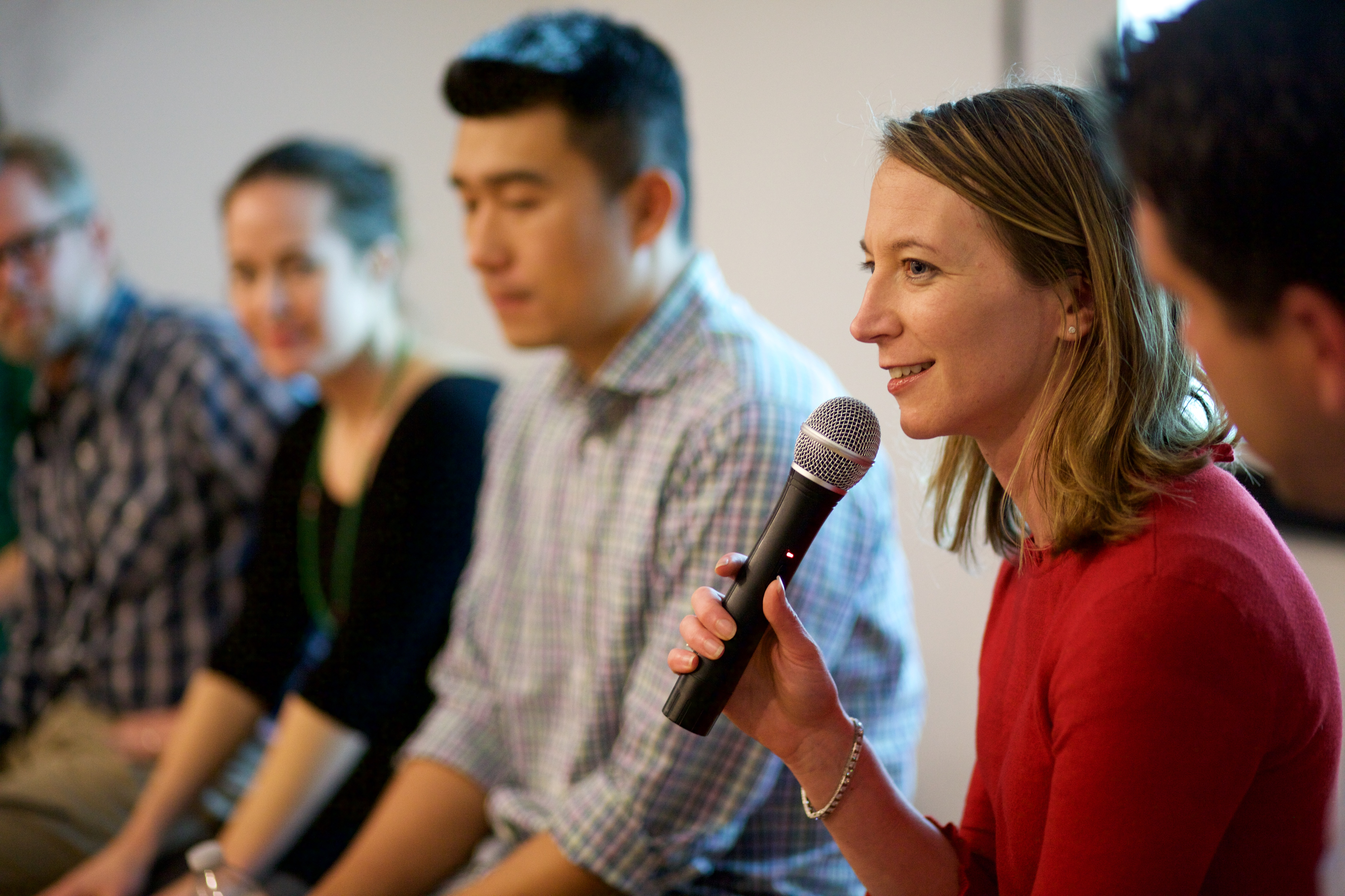 Sharers Talks: Redefining Value with the Sharing Economy at General Assembly on December 18 in San Francisco.